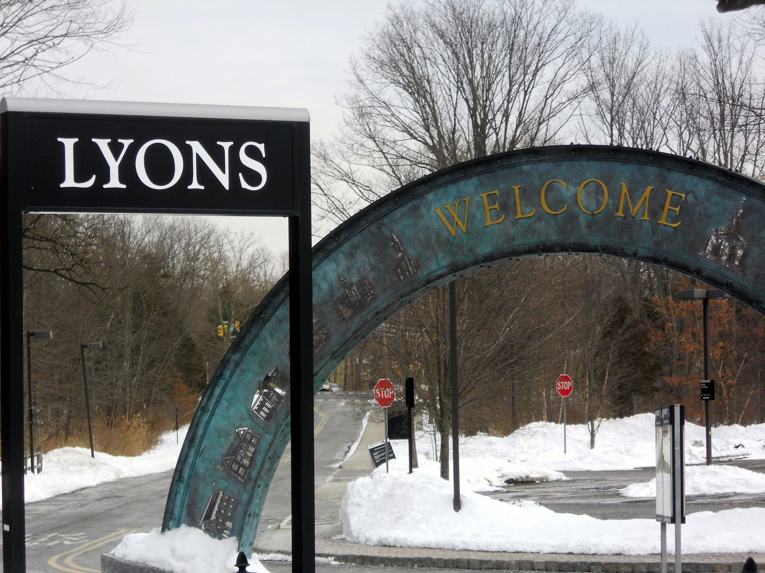 Lyons NJT Station